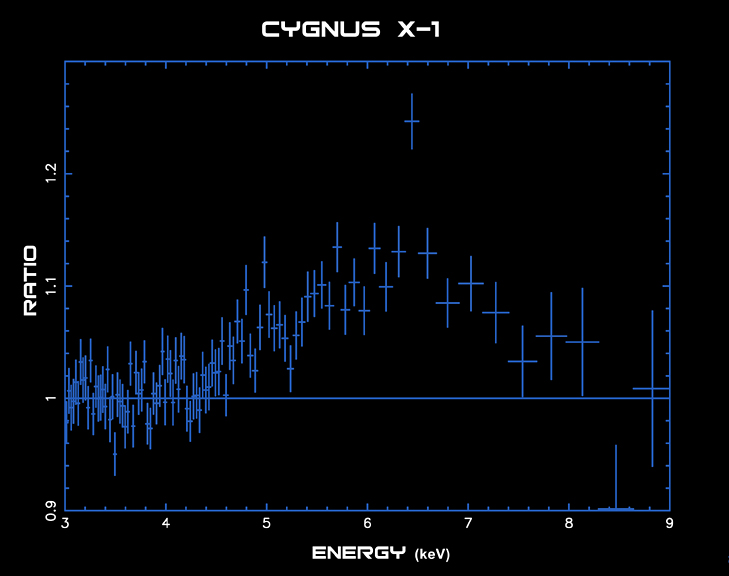 This is the X-ray energy spectrum of Cygnus X-1, a candidate black hole. The data is from the Chandra space telescope. The original caption read as follows: These data profile the X-ray spectral line from iron atoms in the accretion disk around the black hole. Note how the profile is skewed toward energies lower than the expected peak at 6.4 keV. The Chandra data on Cygnus X-1 show evidence of strong gravitational effects, with some atoms as close as 100 miles from the black hole, but no evidence of spin. Chandra X-ray Observatory ACIS/HETGS spectrum.